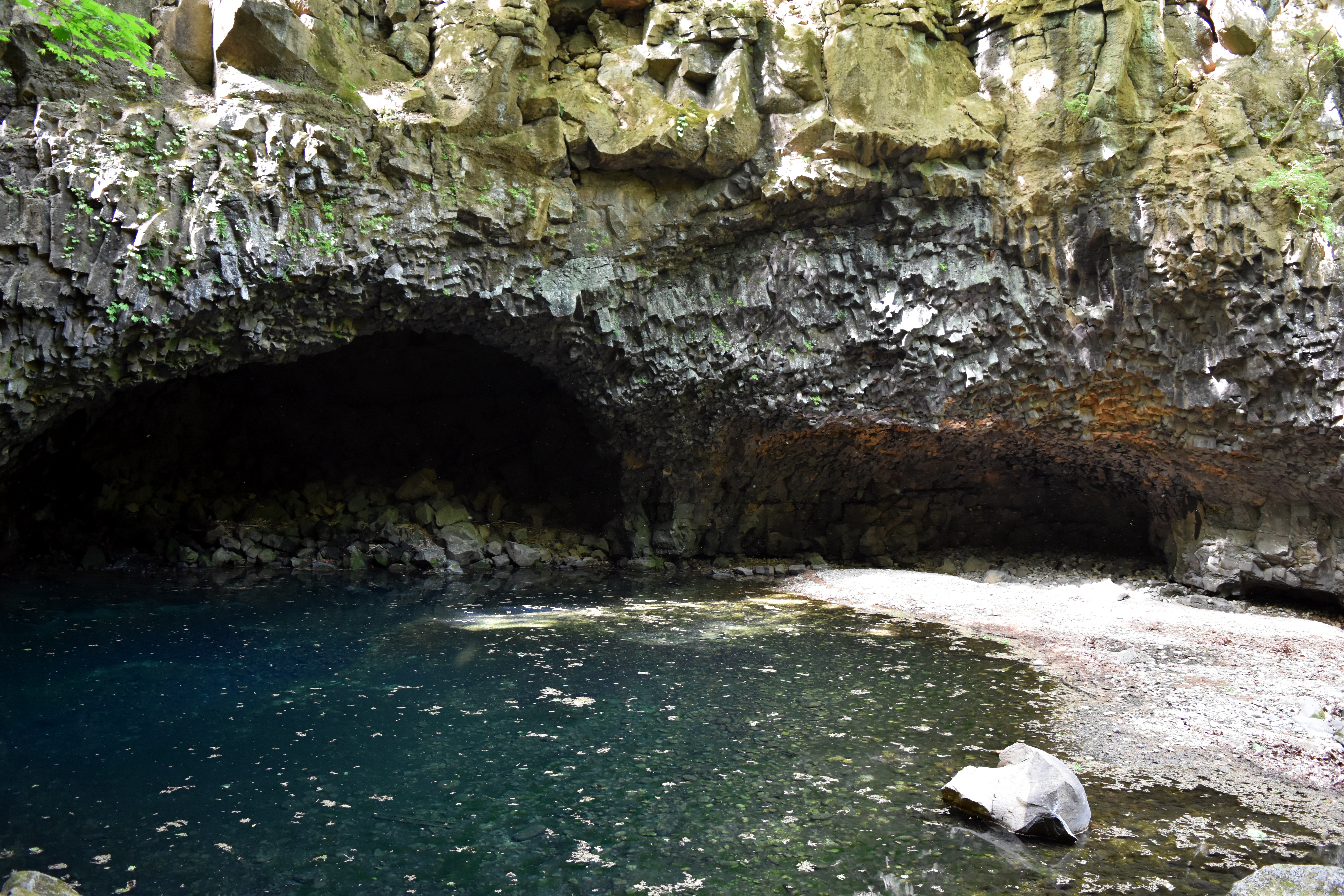 Columnar jointed basalt in Bidulginang(Dove's pocket) Fall at Pocheon, Gyeonggi-do, South Korea